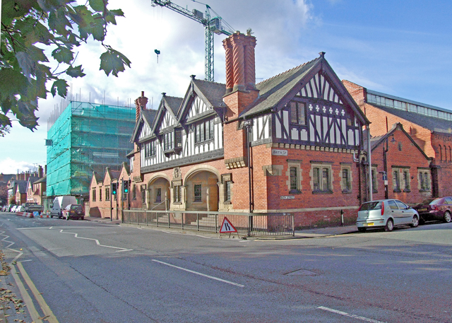 City baths Though superseded in the 1970s by Northgate Arena, still in regular use by swimming clubs.